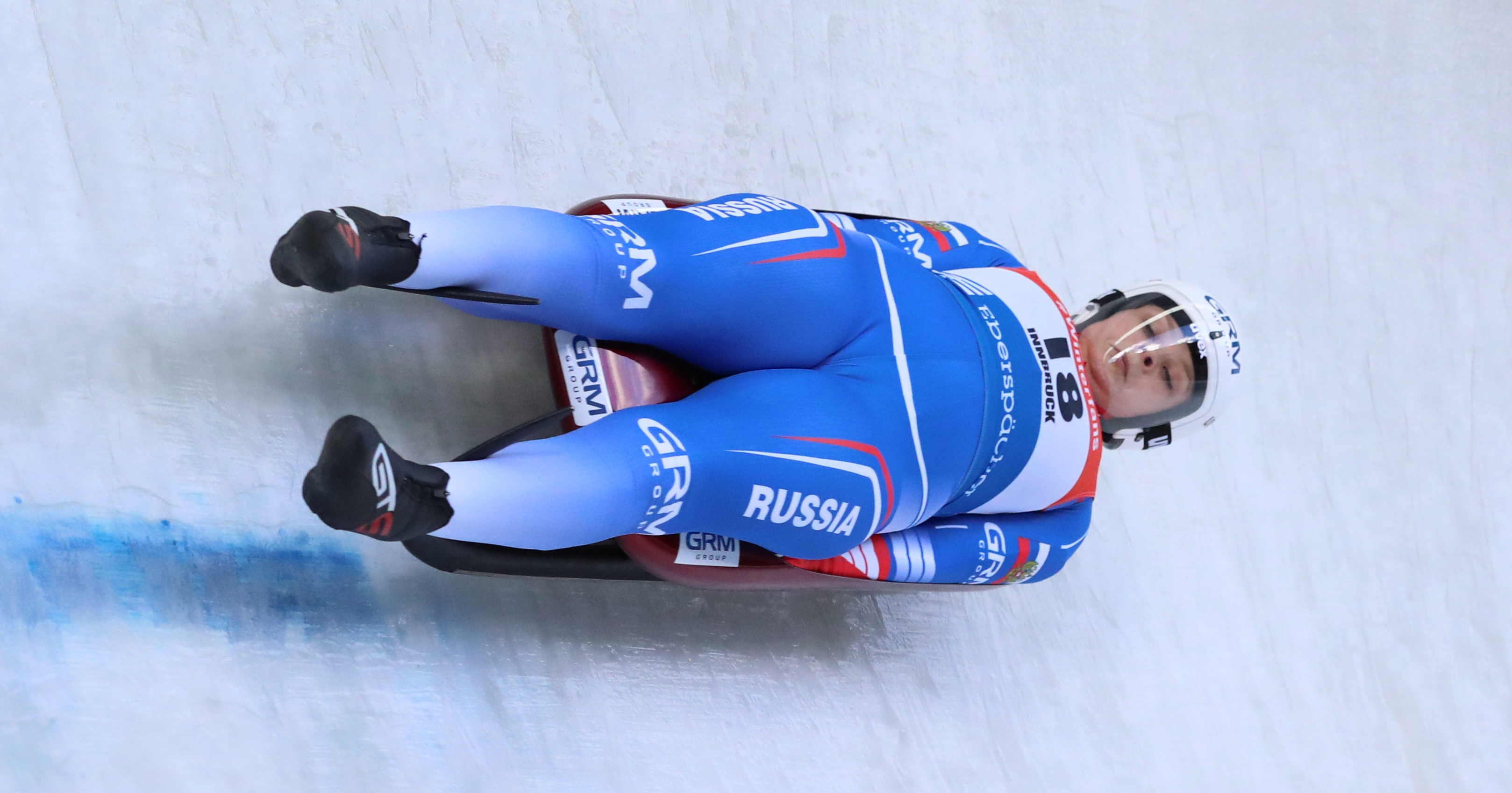 Women's World Cup race at the 2018/19 Luge World Cup in Innsbruck-Igls